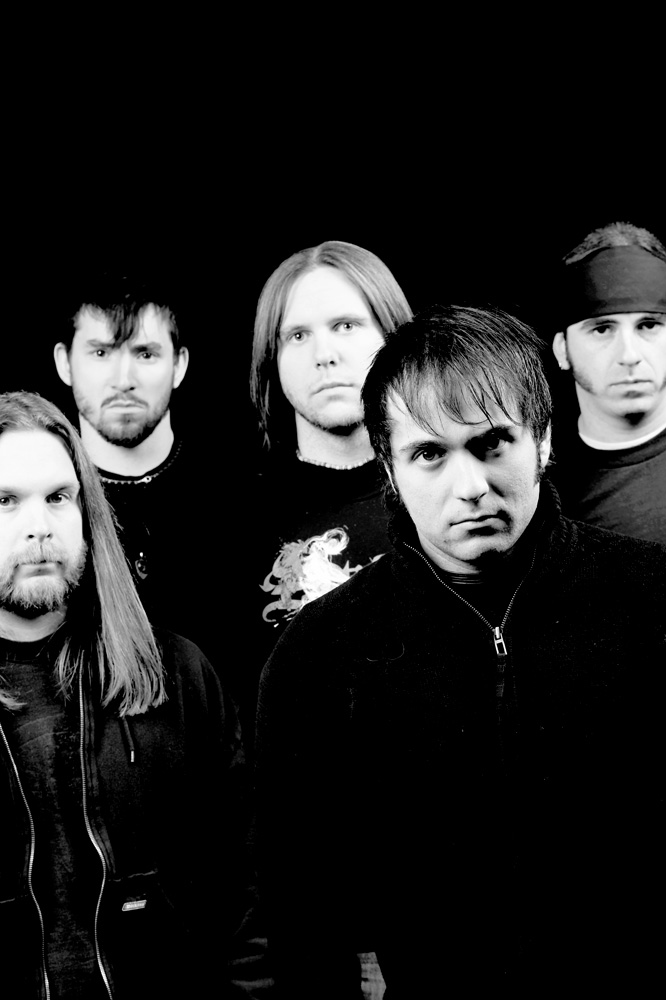 Worcester, Massachusetts, USA. Unearth in 2006